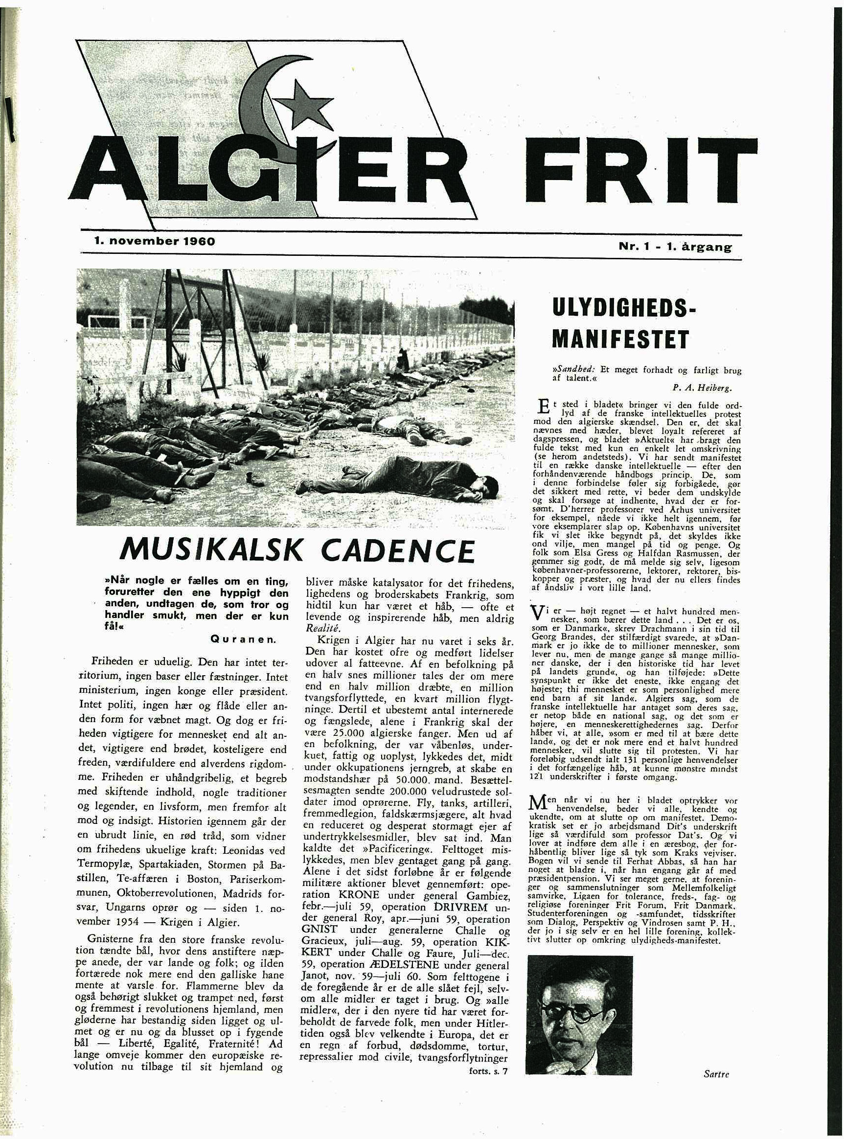 Tidsskriftet Algier Frit